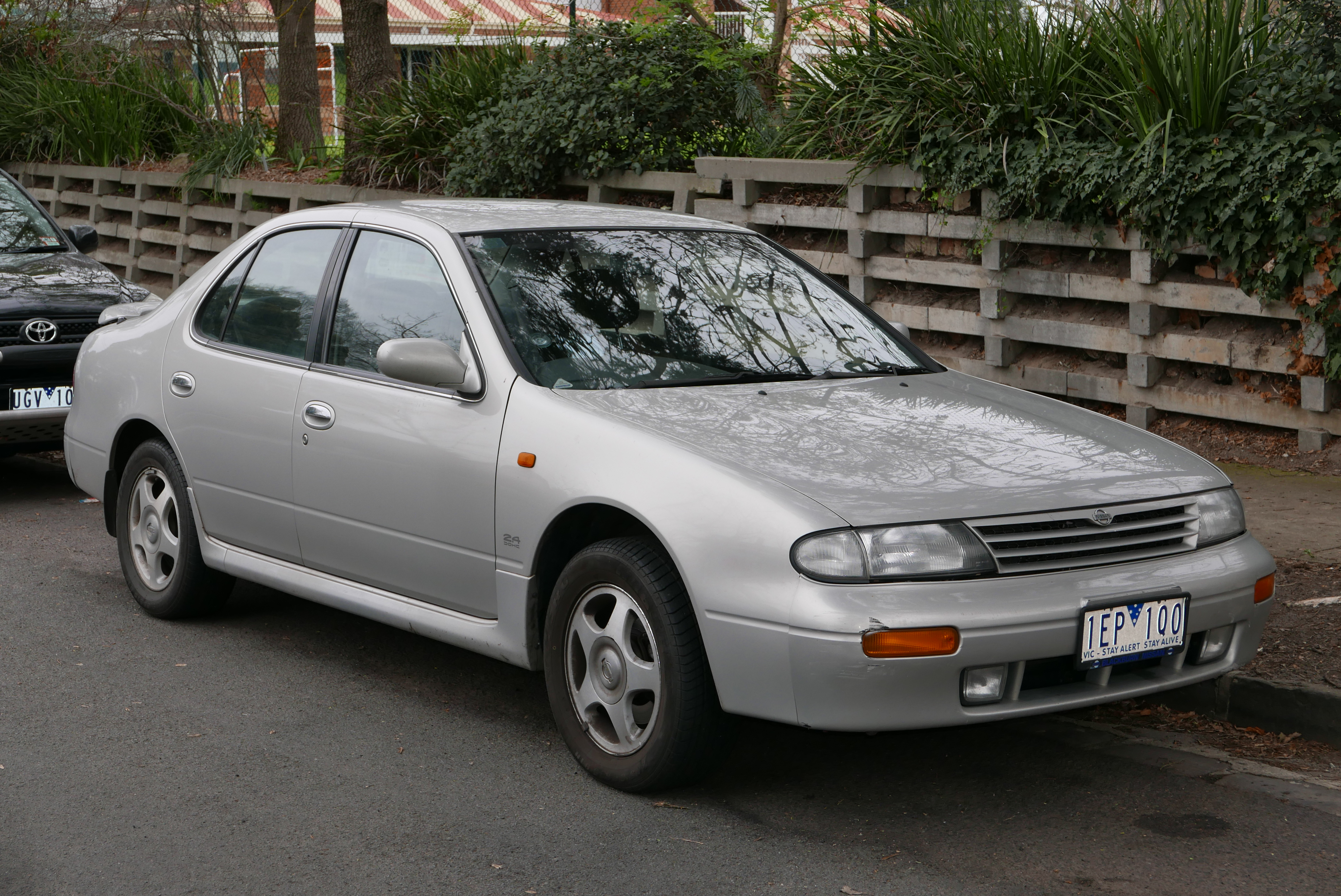 1995 Nissan Bluebird (U13 S2) SSS sedan. Photographed in Kew, Victoria, Australia. Vehicle registration enquiry results Jurisdiction Victoria Registration 1EP1QO Chassis code JN1BBAU13A0100580 Engine code KA24694813W Compliance date 1995-03 Year of manufacture 1995